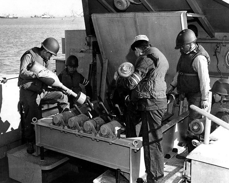 Photo #: 80-G-427432 Apnok (Republic of Korea Frigate, 1950-1952) Crewmen load a "Hedgehog" anti-submarine mortar, while on duty in Inchon Harbor, South Korea. Photo is dated 21 December 1950. Apnok, the former USS Rockford (PF-48), had been transferred to the ROK Navy in October 1950. Note striped armbands worn by some of these men. Official U.S. Navy Photograph, now in the collections of the National Archives.